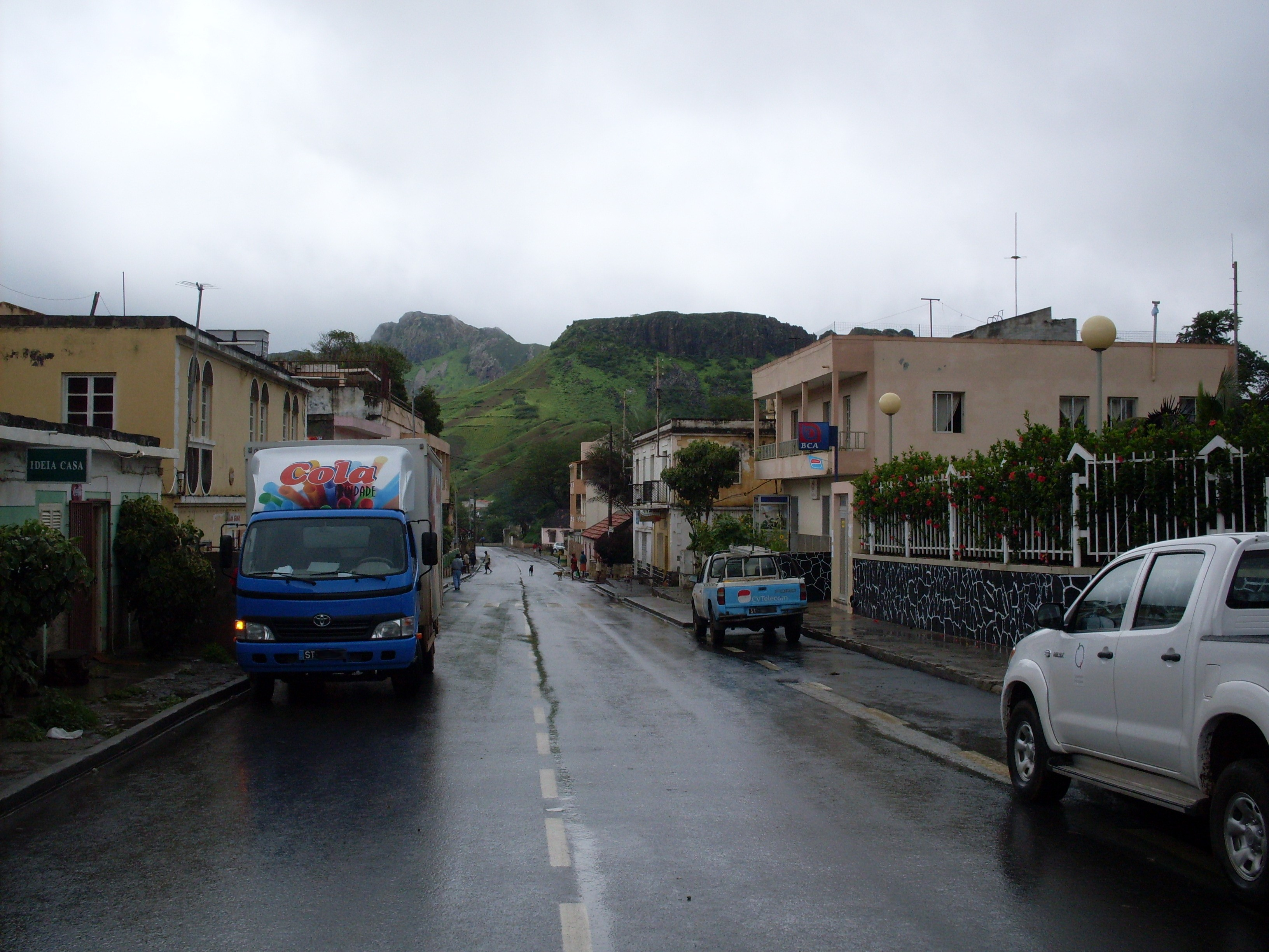 The main street in the town of São Domingos, Santiago, Cape Verde